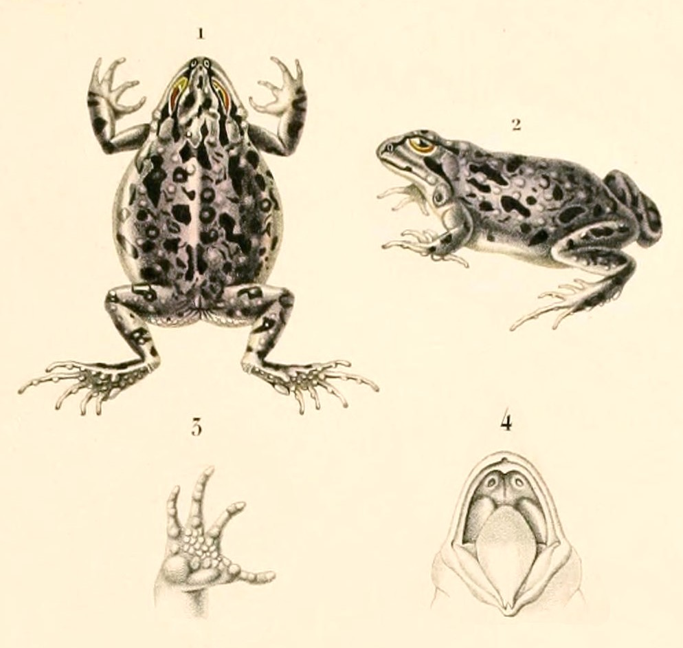 « Leiuperus marmoratus » = Pleurodema marmoratum